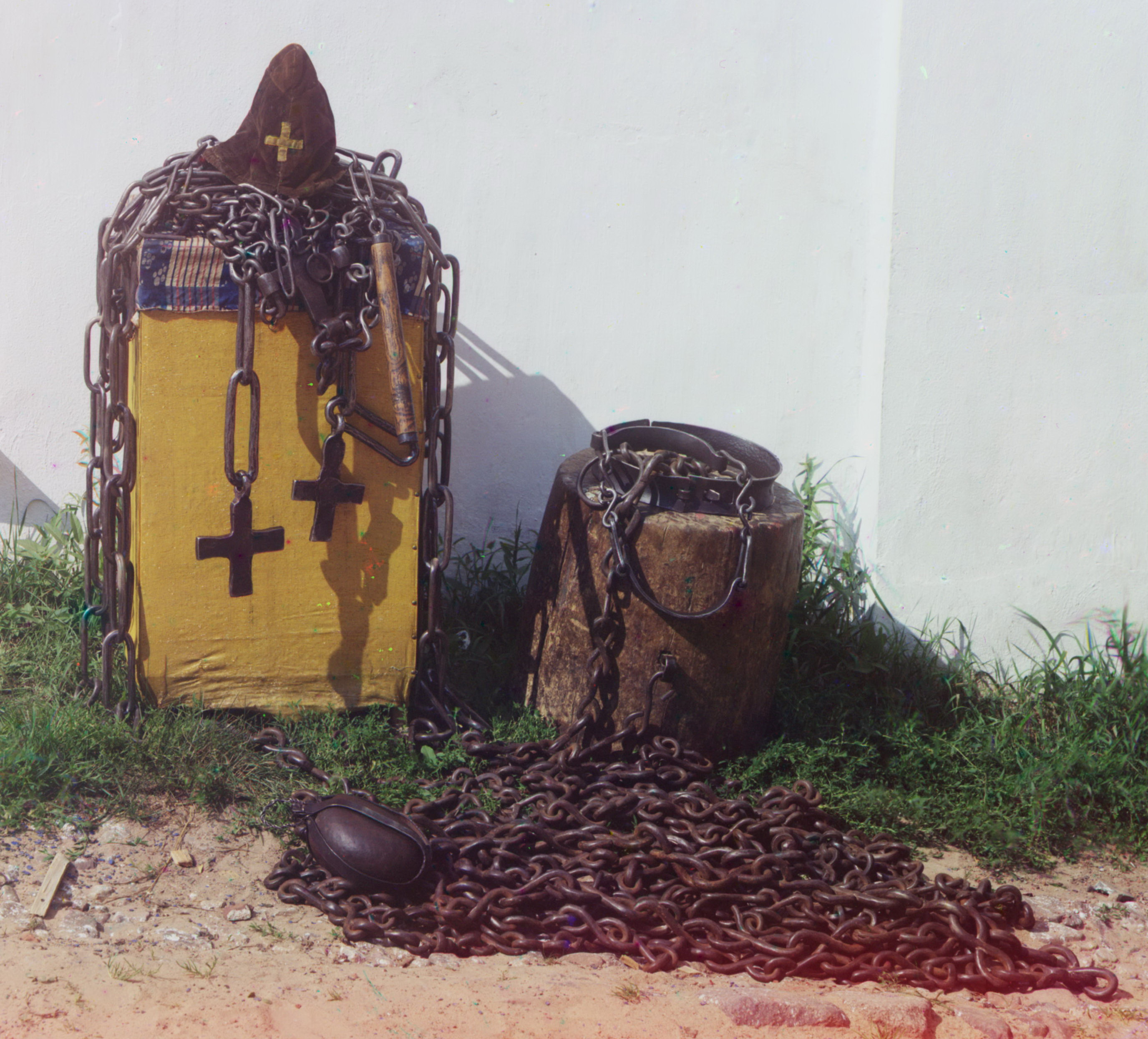 Venerable Irinarkh's cap, lash, and fetters.